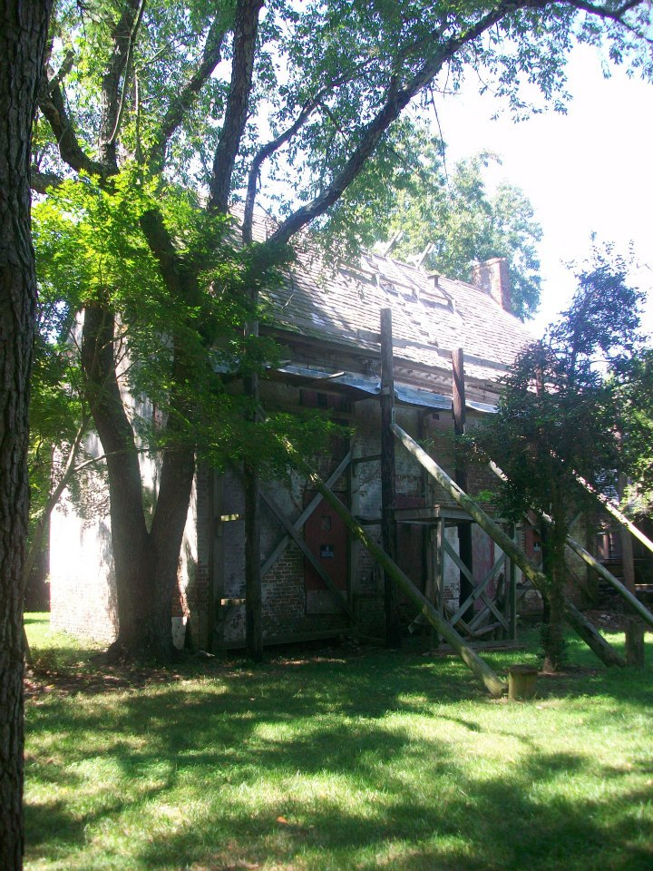 Genesar, circa. 1732, a historic home near Berlin, Maryland.